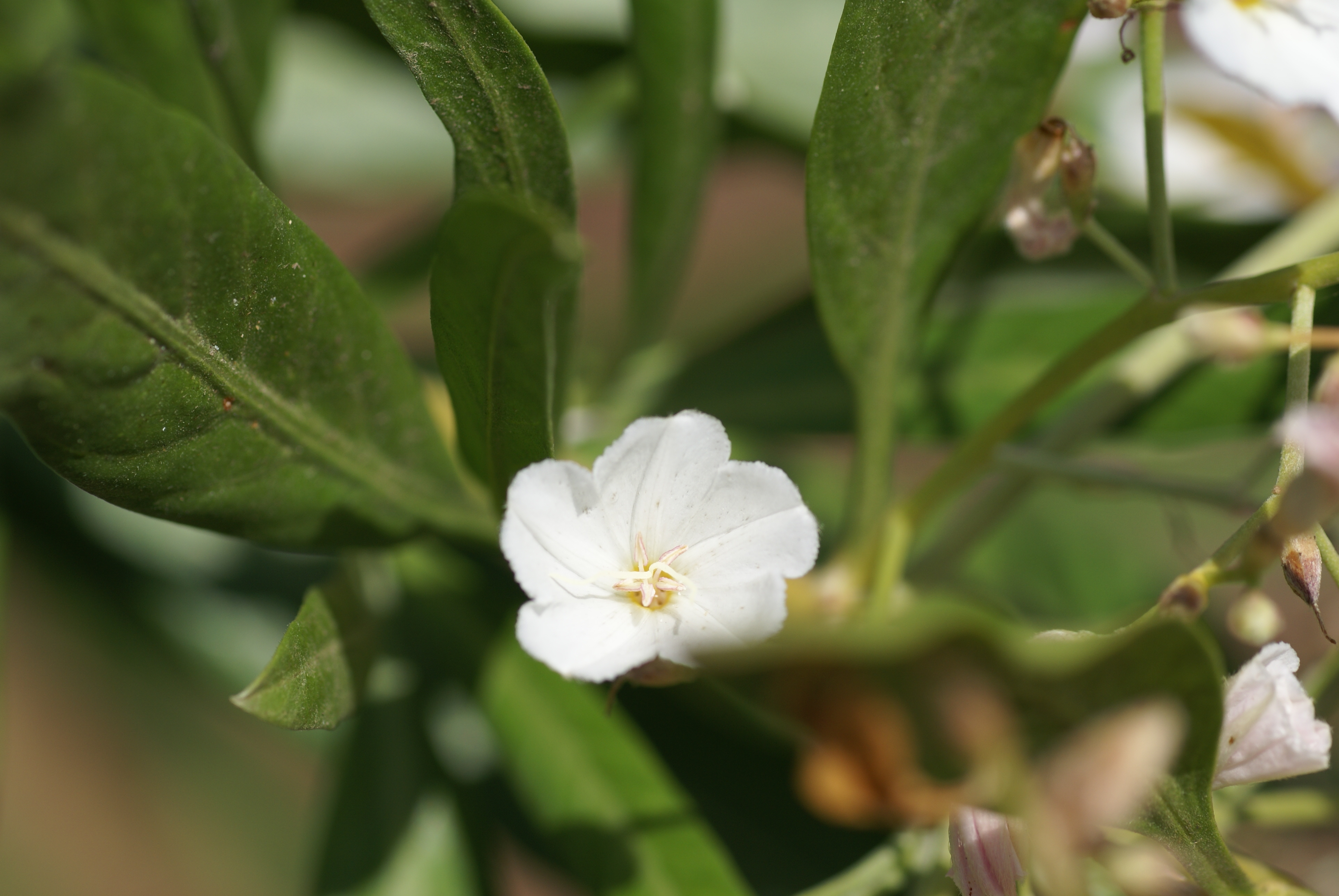 Convolvlulus floridus flower in the garden at Thor Heyerdal's museum on Tenerife